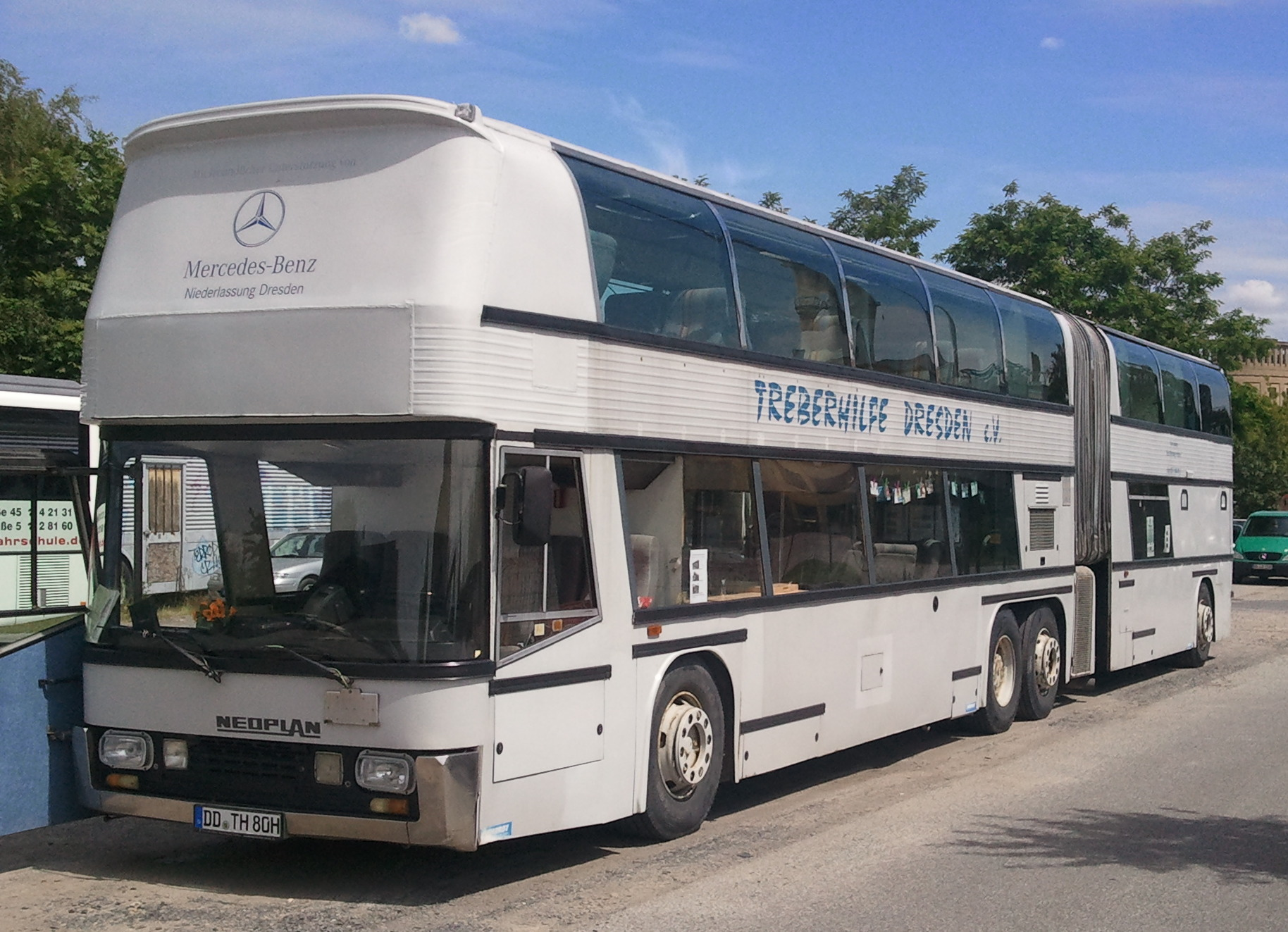 Neoplan Jumbocruiser N138/4 (2014)